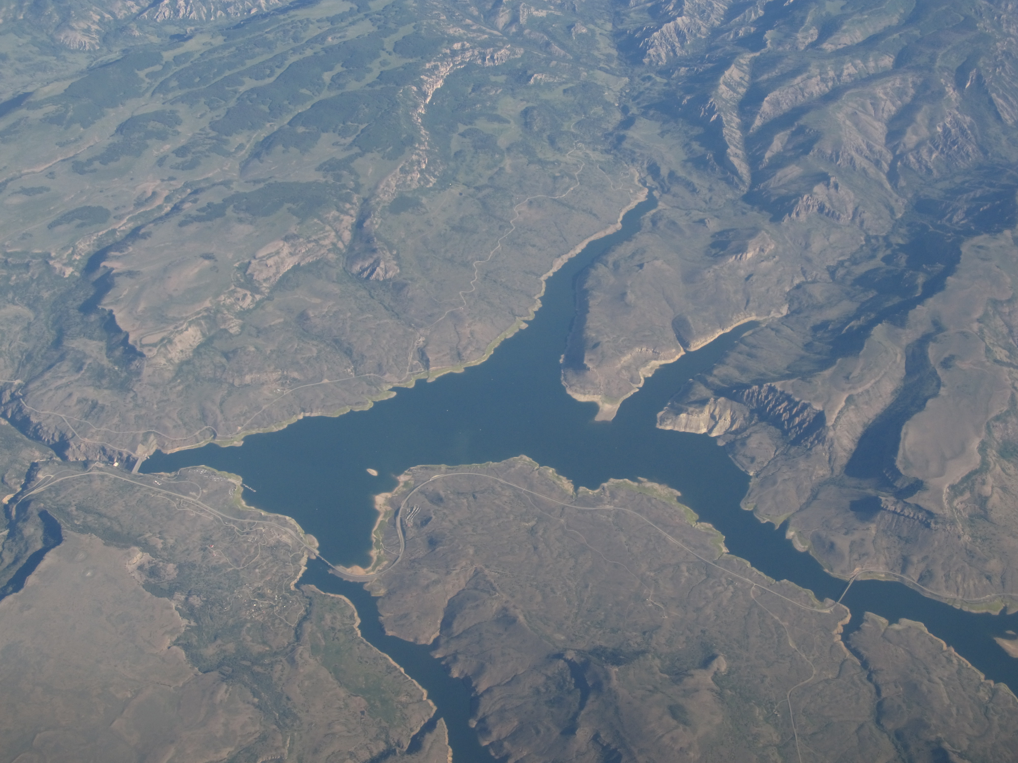 Curecanti National Recreation Area, in Colorado, is formed by three reservoirs, named for corresponding dams on the Gunnison River. The national recreation area borders Black Canyon of the Gunnison National Park on the west. Panoramic mesas, fjord-like reservoirs, and deep, steep and narrow canyons abound. Recently discovered dinosaur fossils, a 6,700-acre (20 km2) archeological district, a narrow gauge train, and traces of 6000 year old dwellings further enhance the offerings of Curecanti.